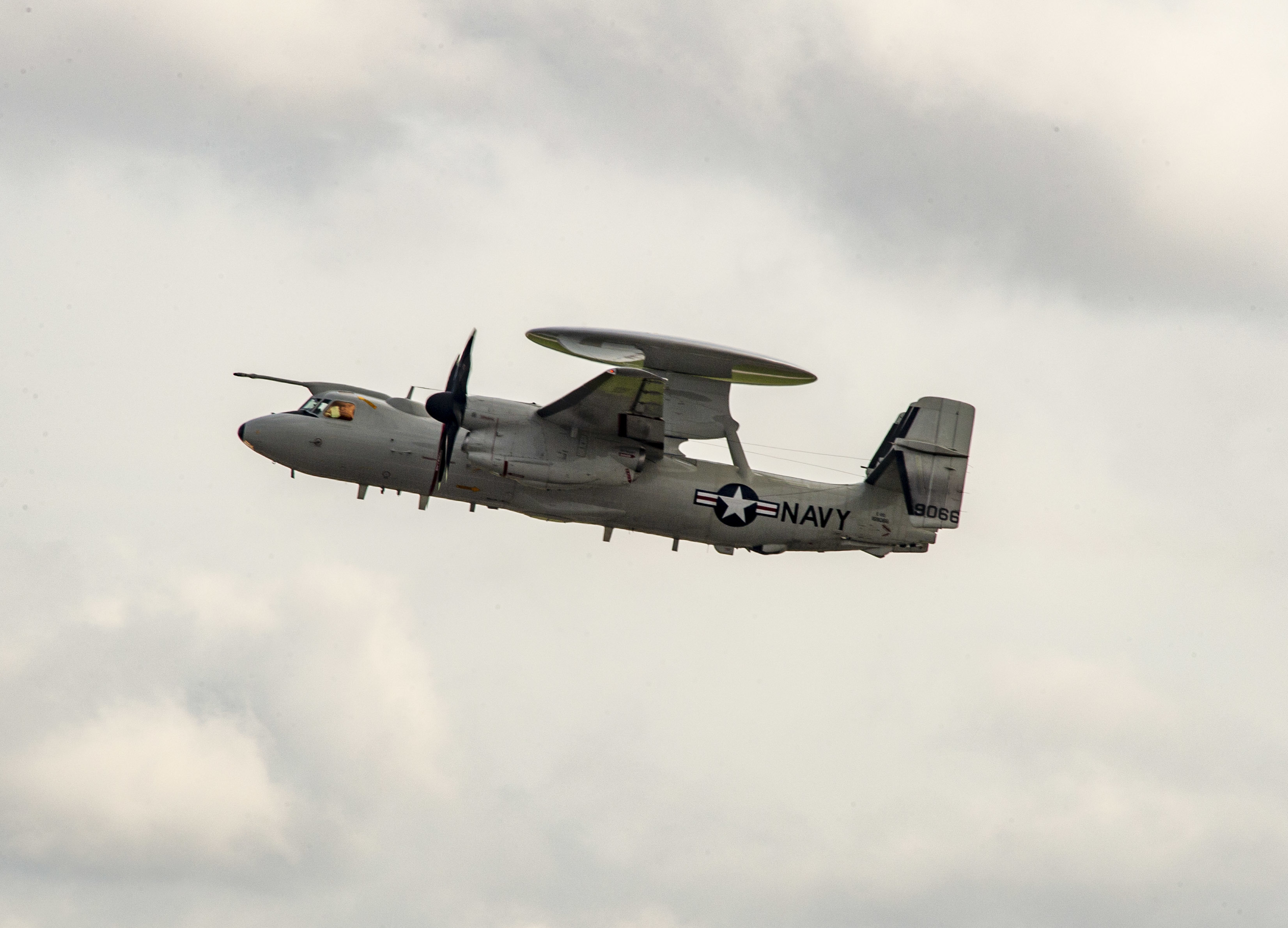 A U.S. Navy Northrop Grumman E-2D Hawkeye (BuNo 169066) of Carrier Airborne Early Warning Squadron 120 (VAW-120) "Greyhawks" prepares to land at Naval Station Norfolk, Virginia (USA), on 9 September 2019. This was the first E-2D Hawkeye with aerial refueling capability.